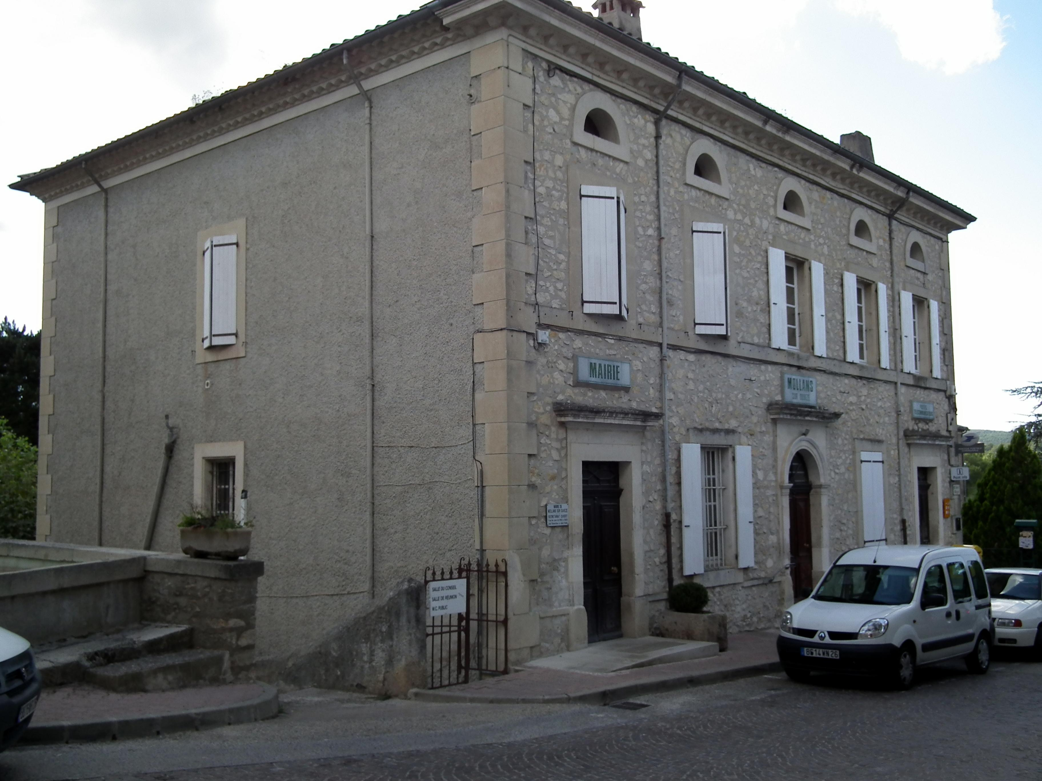 Town hall of Mollans-sur-Ouvèze - Drôme - France